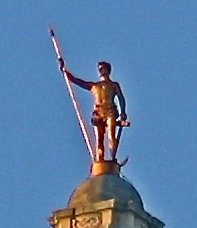 Independent Man, the golden statue atop the Capitol Dome in Providence, Rhode Island.